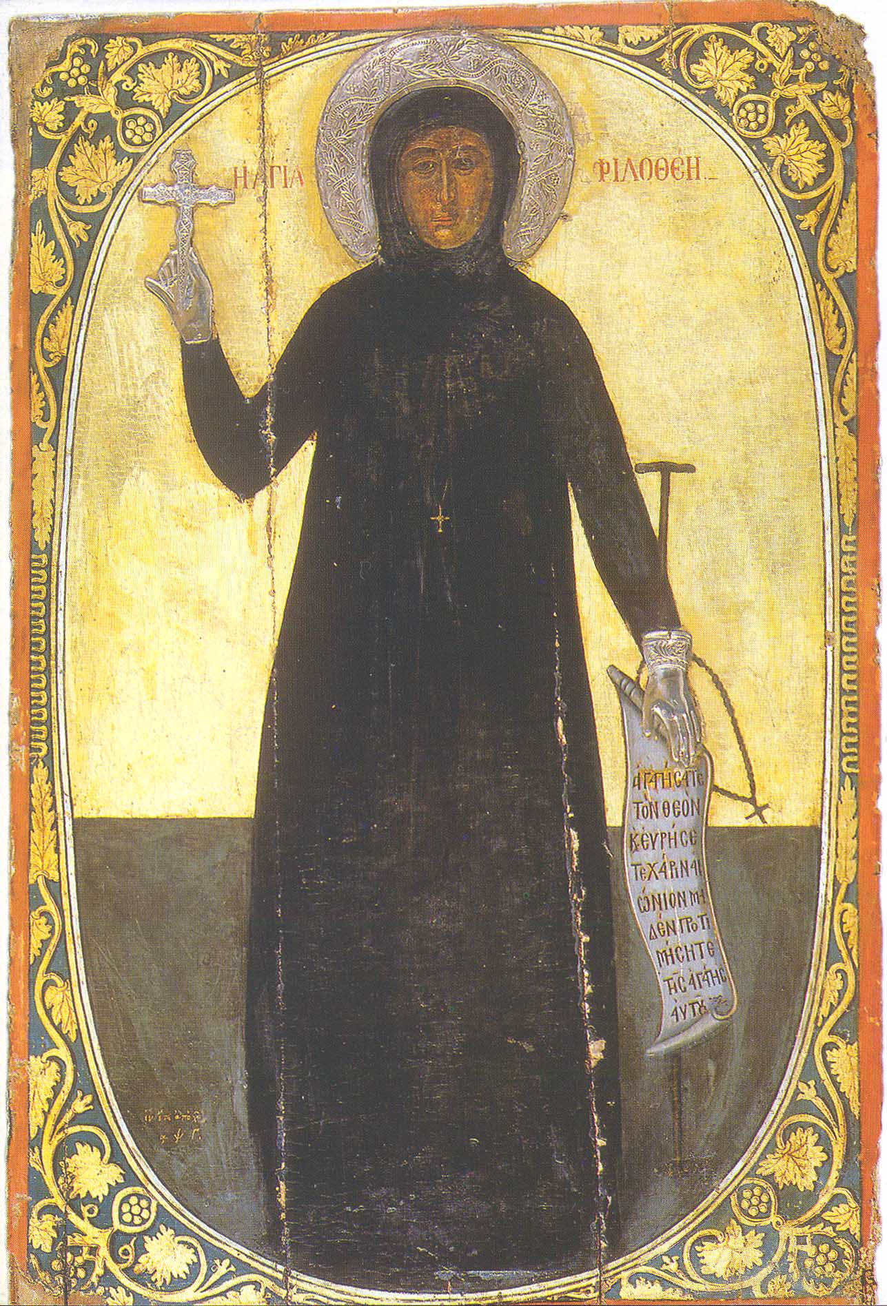 Saint Philothei, patron saint of Athens